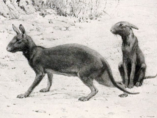 Life restoration of Protypotherium australe and Stegotherium tesselatum from W.B. Scott's "A History of Land Mammals in the Western Hemisphere." New York: The Macmillan Company.